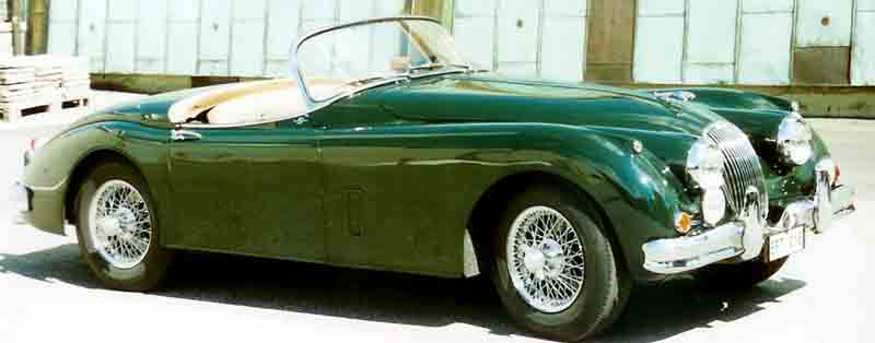 Jaguar XK150 Roadster